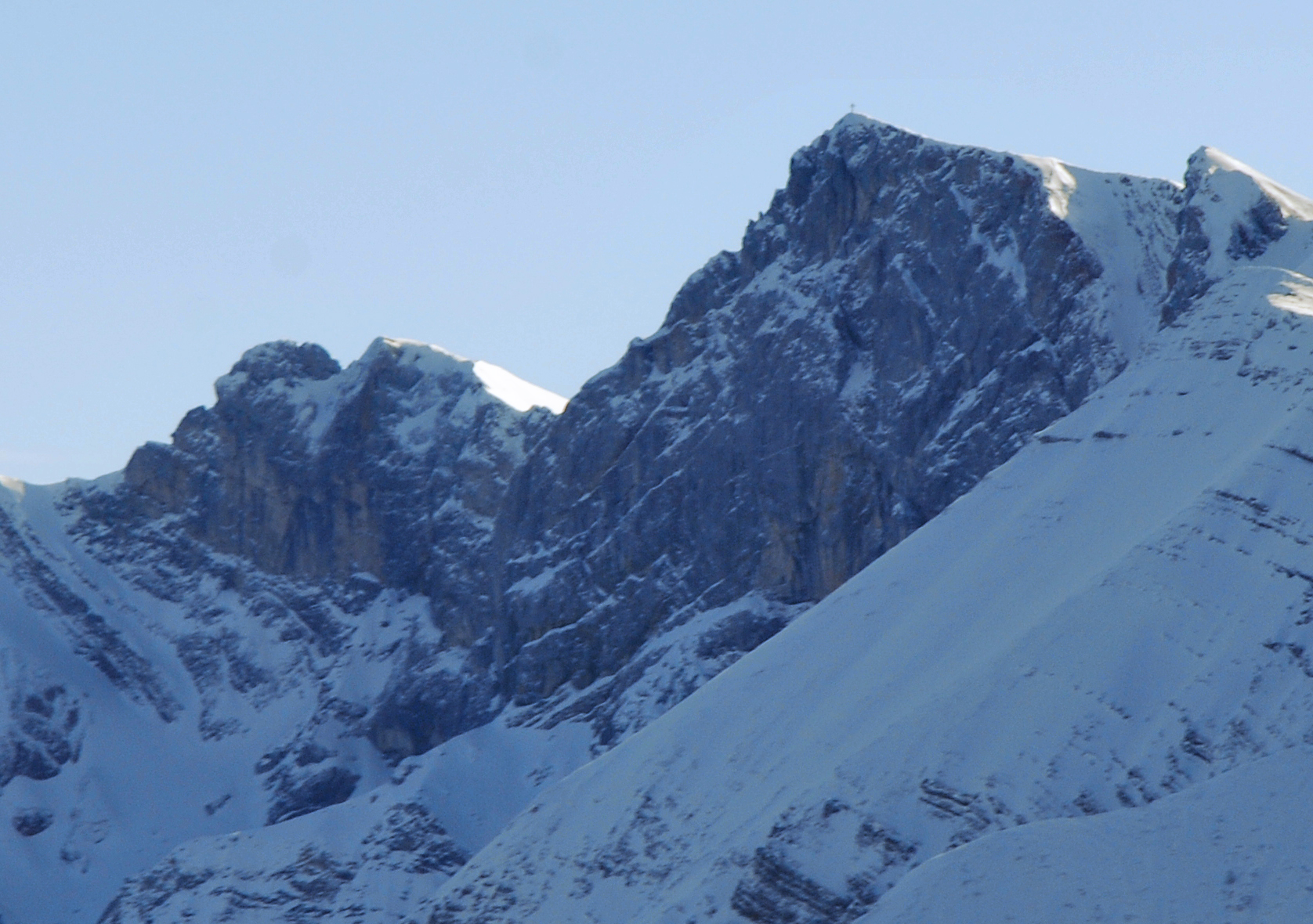 Hochiss 2299m (right) and Spieljoch 2236m (left) from Northwest